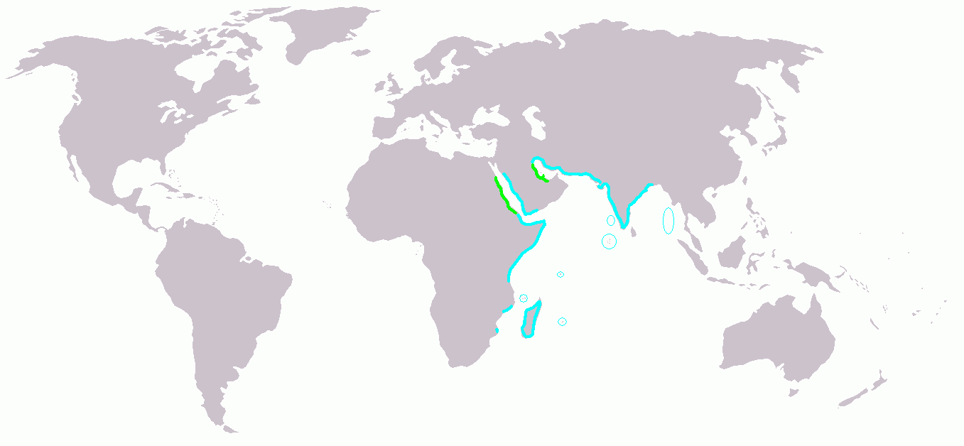 Distribution map of Dromas ardeola by L. Shyamal